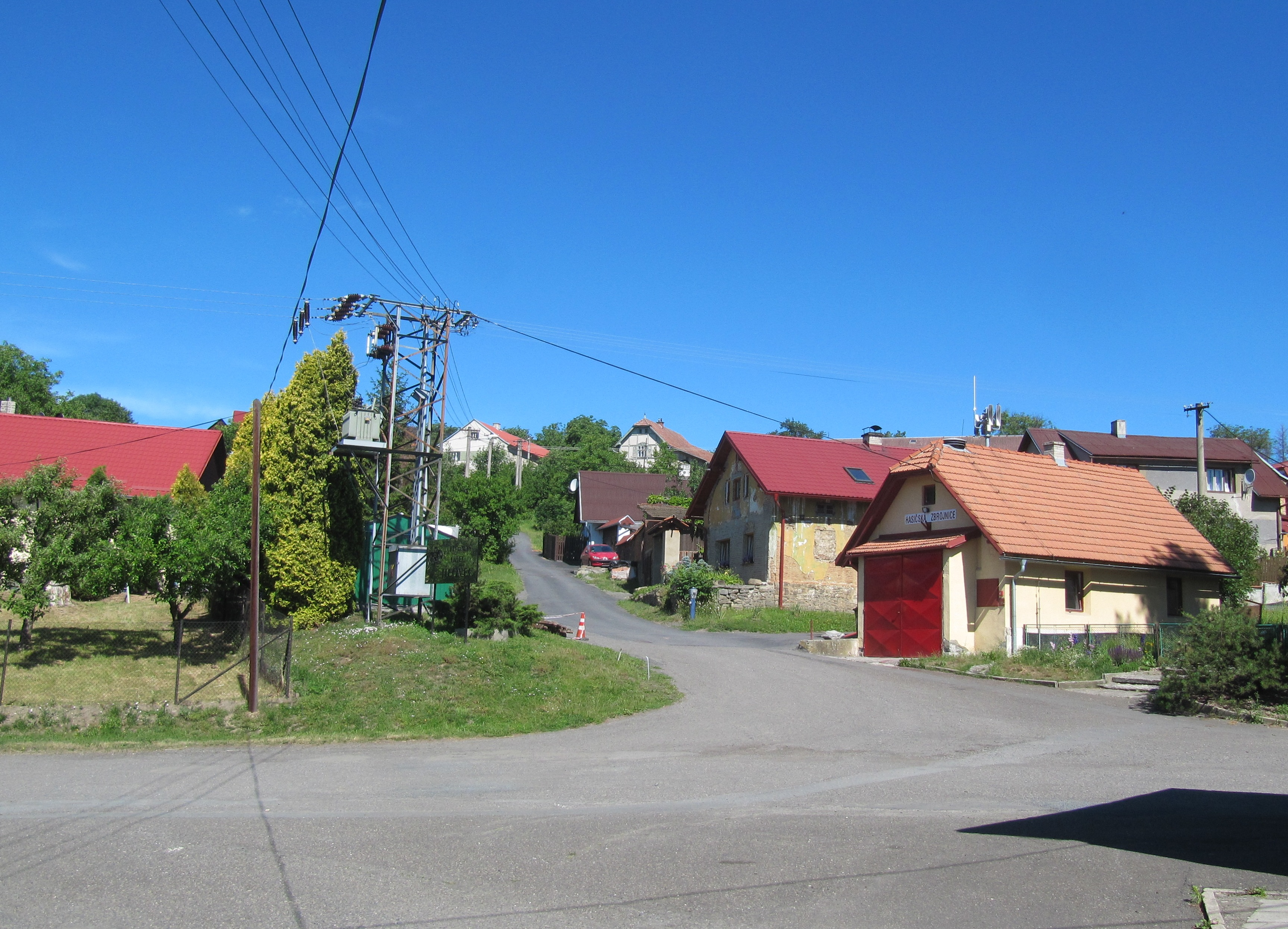 Fulnek, Nový Jičín District, Czech Republic, part Jílovec.